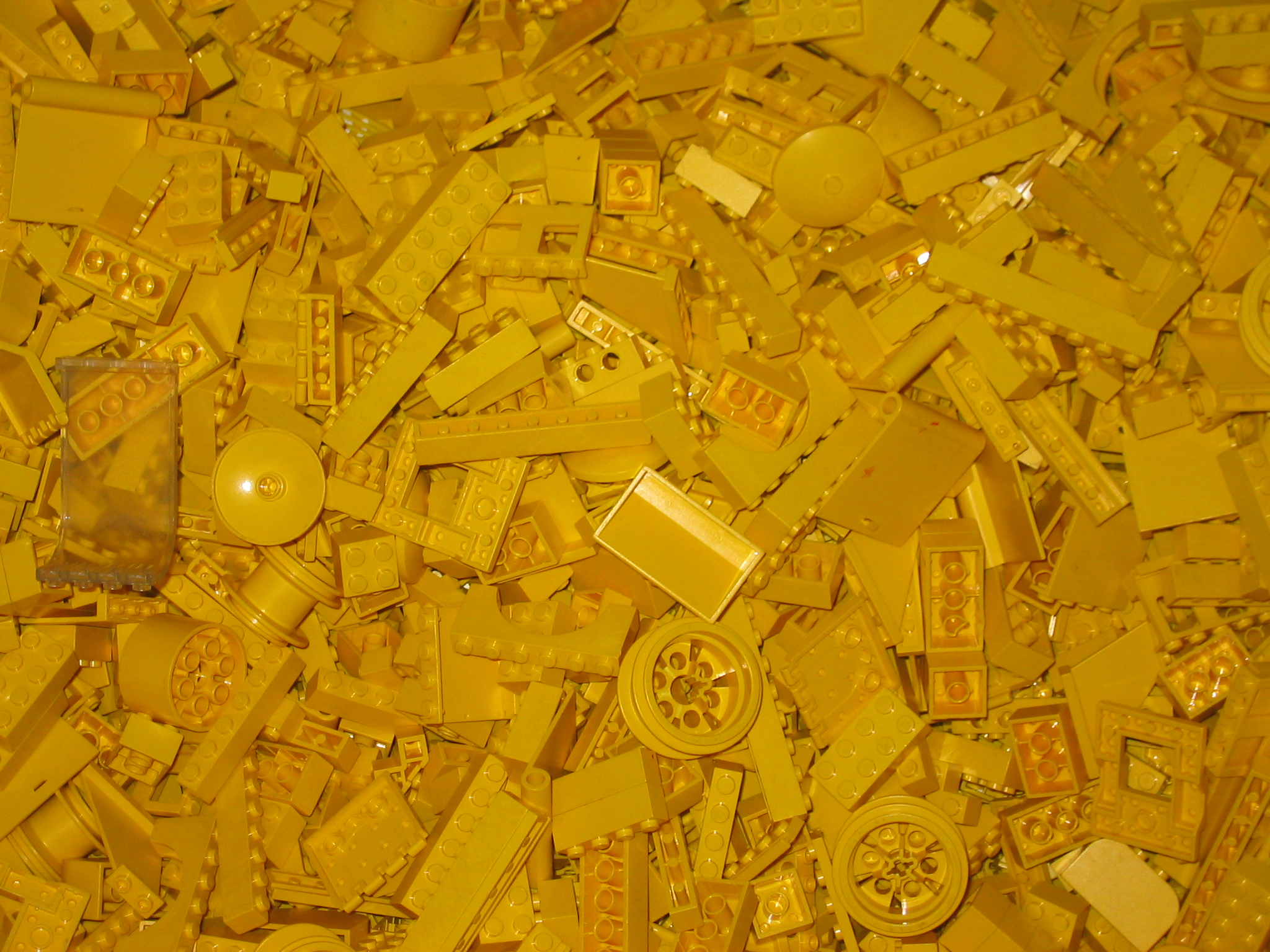 Yellow Lego bricks